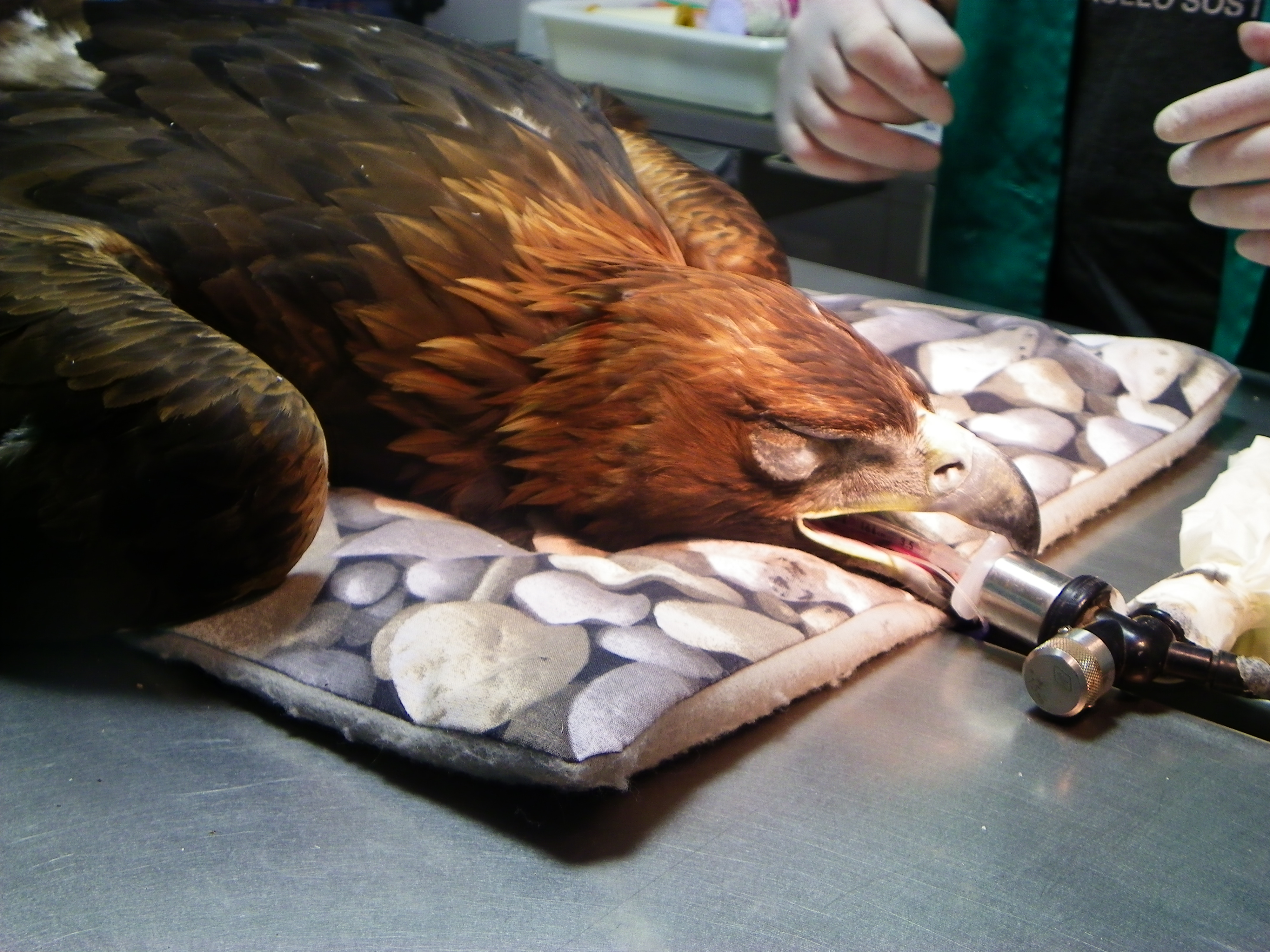 Veterinary examination of a Golden Eagle